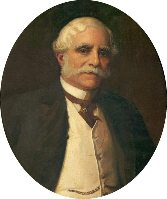 Sir Henry Bemrose; Supplied by The Public Catalogue Foundation